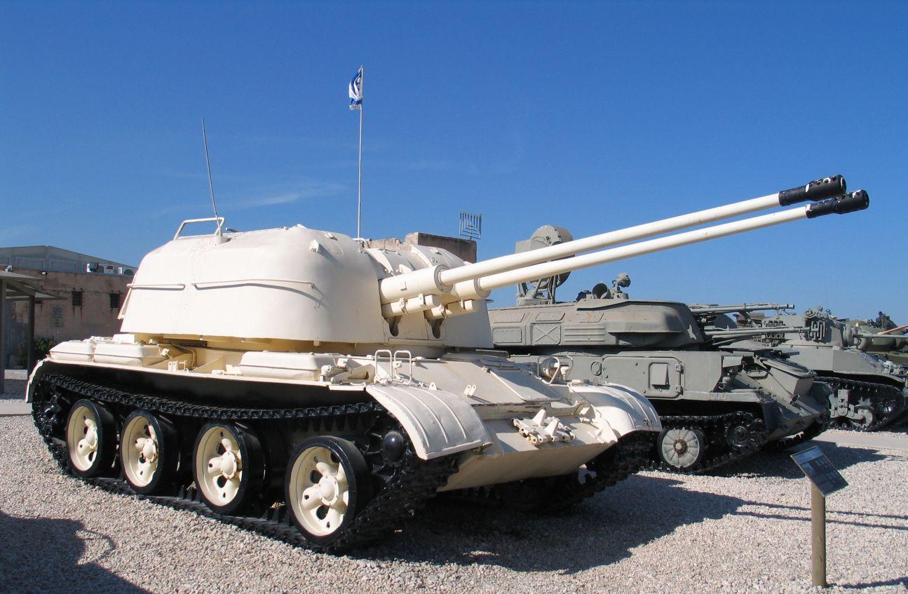 Description: Soviet ZSU-57-2 self propelled air defence cannon in Yad la-Shiryon Museum, Israel. 2005. Source: Photo by me, User:Bukvoed.